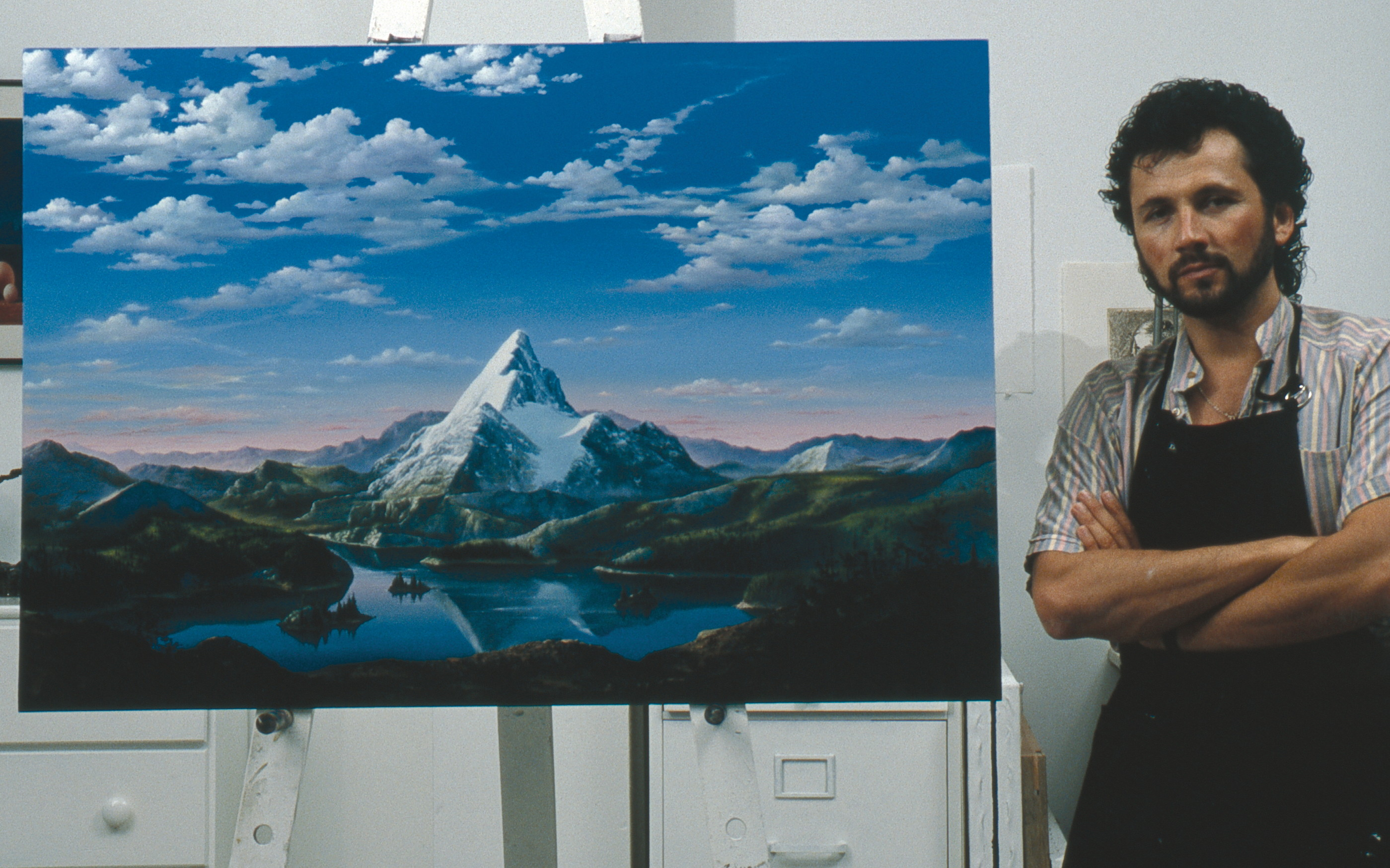 This is a photograph of the artist Dario Campanile standing in front of the artwork he created for Paramount Studios for their 75th Anniversary logo-redesign. The painting was used as the source for subsequent logo animation. The original is on display at Paramount Studios.